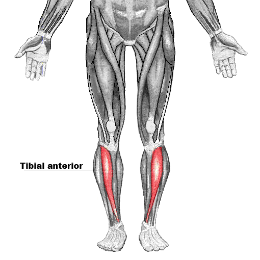 Tibialis anterior muscle